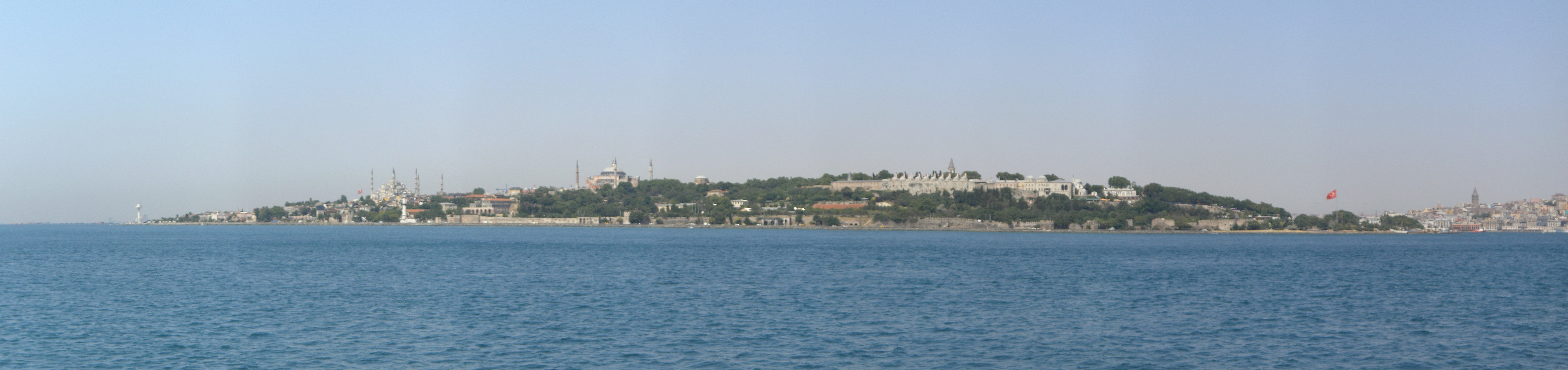 Panoramic view of the historic peninsula of Istanbul, looking westwards from the southern entrance of the Bosporus Strait at the Sea of Marmara. From left to right, the Blue Mosque, the Hagia Sophia and the Topkapı Palace are seen, along with the surviving sections of the Sea Walls of Constantinople. The Galata Tower is seen at the far right of the picture, across the Golden Horn. The arches and vaults of the Byzantine-era Mangana (Armoury) and the Hagios Georgios Monastery which was located inside it are seen between the Blue Mosque and the Hagia Sophia, near the shore (because of its prominent position close to the Seraglio Point, the Mangana Monastery of Hagios Georgios was a well-known landmark for Western sailors who called the Bosporus "the arm of Saint George" since the thirteenth century.) The dome of the Hagia Irene can be seen to the right of the Hagia Sophia.